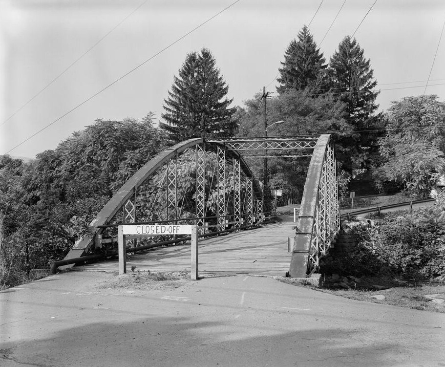 Waverly Street Bridge, Spanning George's Creek, Westernport, MD, Westernport (Allegany County, Maryland) cropped, HAER MD,1-WESPO,1-1 This image or media file contains material based on a work of a National Park Service employee, created as part of that person's official duties. As a work of the U.S. federal government, such work is in the public domain in the United States. See the NPS website and NPS copyright policy for more information. Creator: U.S. Department of the Interior, National Park Service, Historic American Engineering Record. Survey number HAER MD-83 Source: U.S. Library of Congress, Prints and Photographs Division, "Built in America" Collection. Copyright: "The original measured drawings and most of the photographs and data pages in HABS/HAER/HALS were created for the U.S. Government and are considered to be in the public domain."